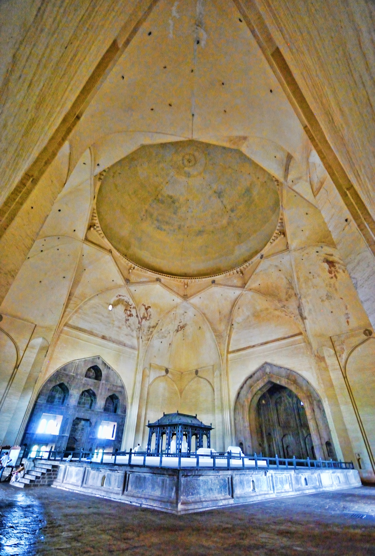 Gol Gumbaz is the mausoleum of Muhammad Adil Shah (1627 -56), the seventh ruler of the Adil Shahi dynasty. A fine specimen of Adil Shahi architecture, this mammoth tomb is a dominant landmark of Bijapur. The construction of the Gol Gumbaz was completed in 1659, after 20 years of meticulous craftsmanship. The chief attraction of the mausoleum is its central dome, which is second in size only to the dome of St Peter's Basilica in Rome and stands unsupported by any pillars. Another astonishing facet of the Golgumbaz is its whispering gallery, which is an acoustic marvel. The gallery has been designed in such a way that the tick of a watch or the rustle of paper can be heard across a distance of 37m and the faintest sound is echoed eleven times over. The tombs of Sultan Adil Shah, his two wives, his mistress Ramba, his daughter and grandson are located under the central dome. The octagonal turrets which project at an angle and the huge bracketed cornic below the parapet, are important features of this monument. From the gallery around the dome, which can be reached by climbing up the turret passages, one can have a fabulous view of the town.